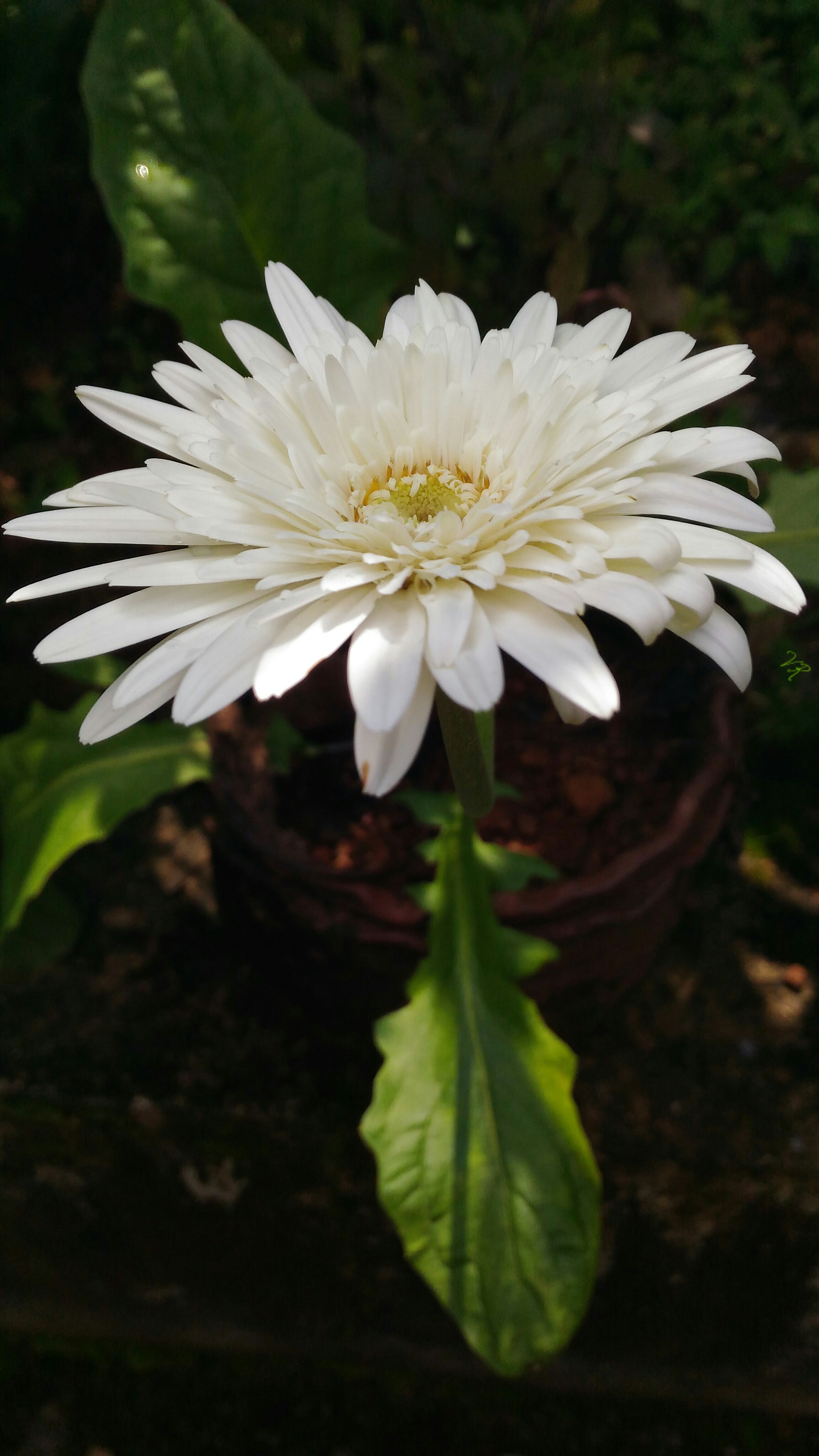 White Gerbera flower